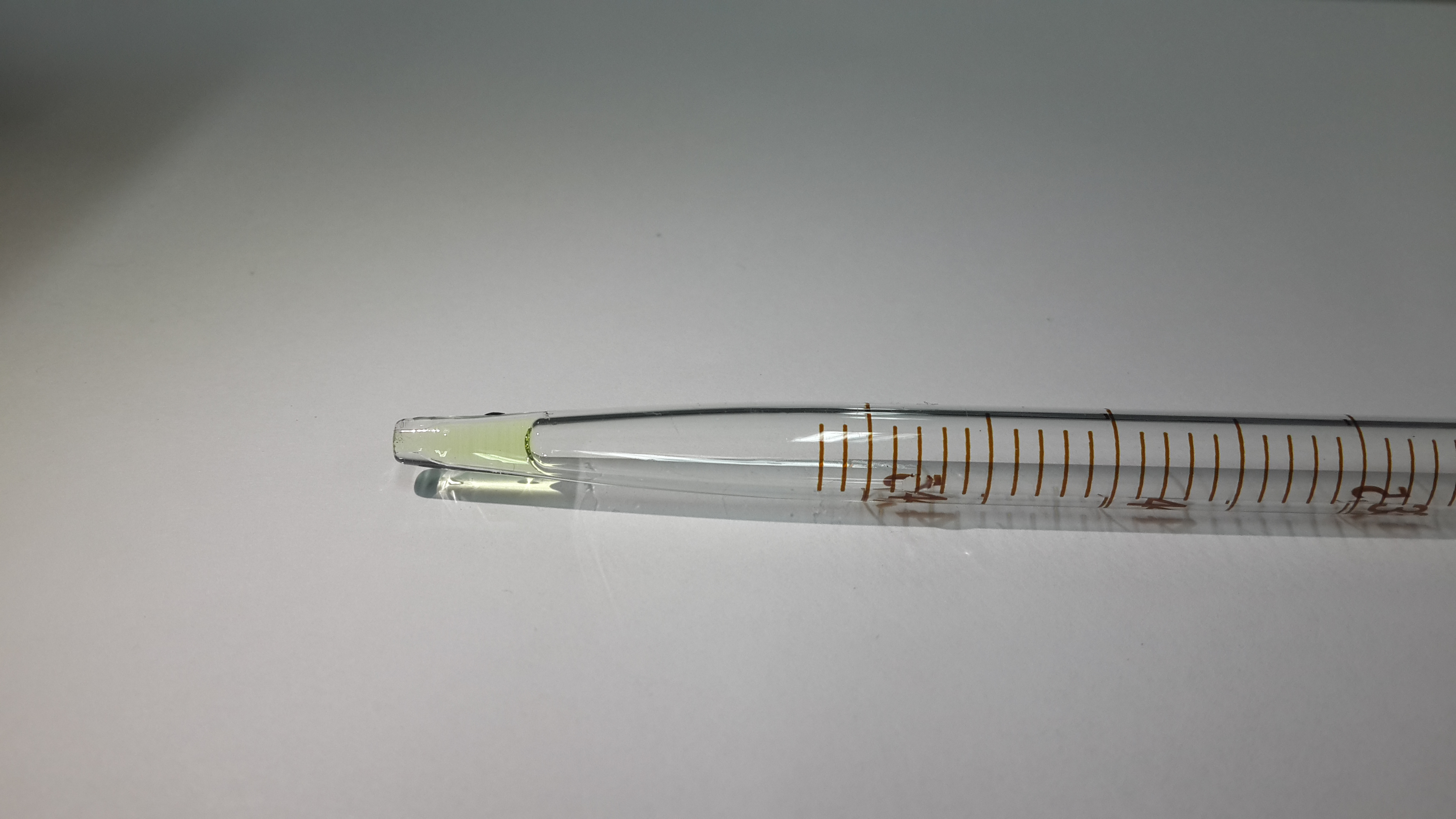 This is the image of the solution that stuck on the tip of the pipette. You either blow the pipette using the pipette or not blow depending on the pipette type.